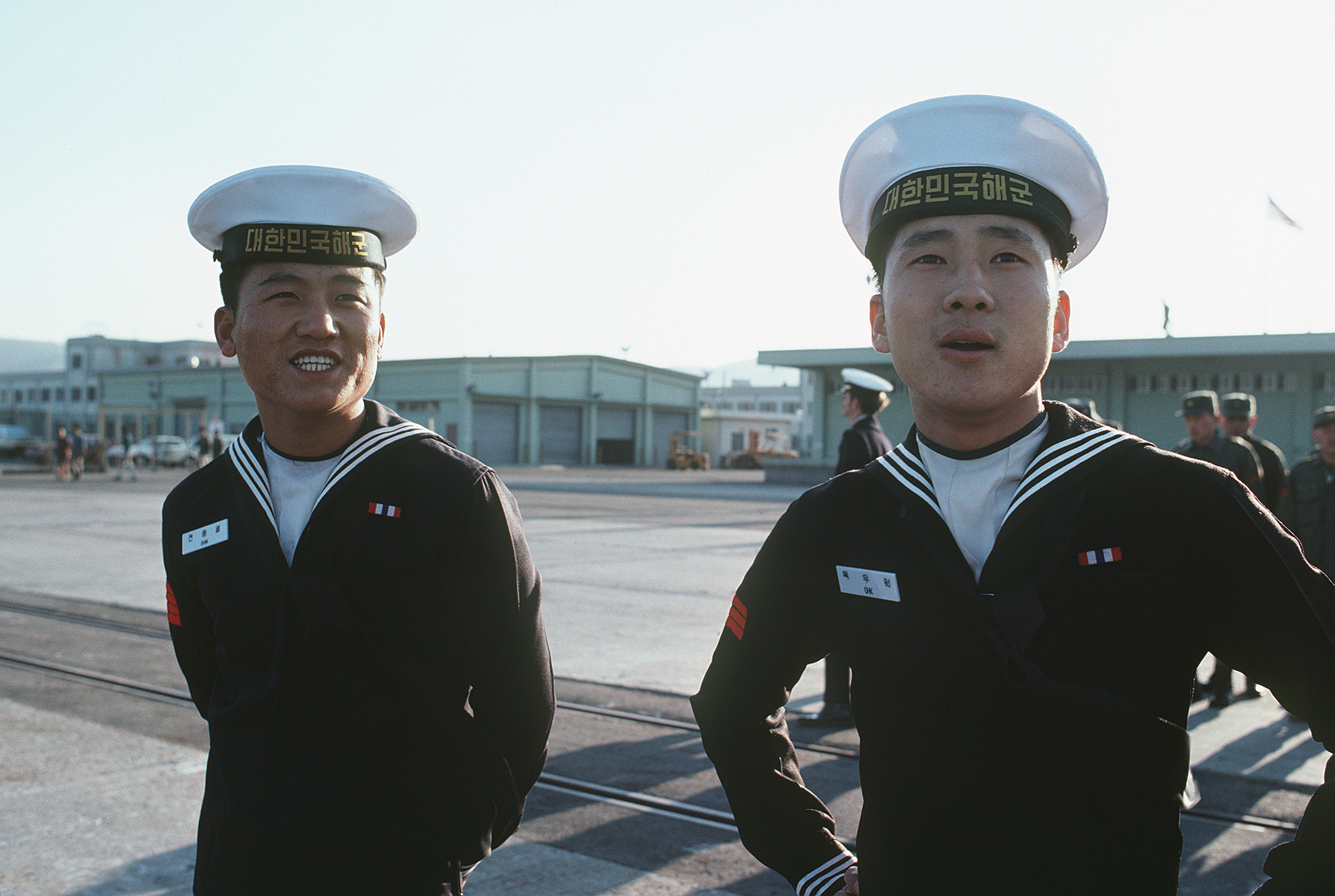 ID: DN-ST-86-04397 Service Depicted: Other Service Korean sailors await the arrival of the aircraft carrier USS MIDWAY (CV 41).